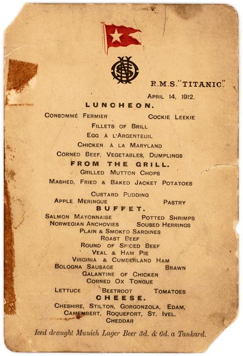 This undated photo provided by Lion Heart Autographs shows the Titanics last lunch menu, which is going to auction and is estimated to bring $50,000 to $70,000. The menu - saved by a passenger who climbed aboard the so-called Money Boat before the ocean liner went down - will be sold by Lion Heart Autographs, an online New York auctioneer, along with two other previously unknown artifacts from Lifeboat 1 on Sept. 30, 2015. The auction marks the 30th anniversary of the wreckages discovery at the bottom of the Atlantic Ocean. (Lion Heart Autographs via AP)